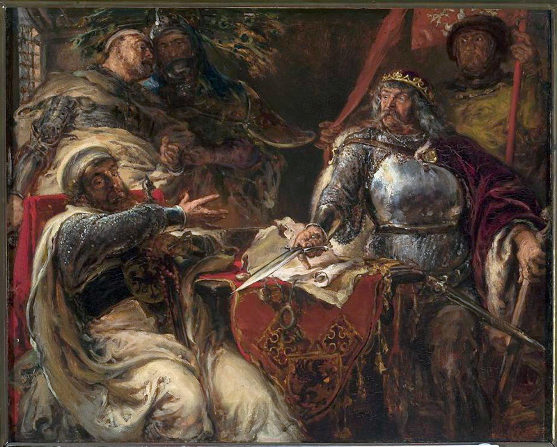 Wladislaus I of Poland breaks negotiations with Theutonic Knights in Brześć Kujawski